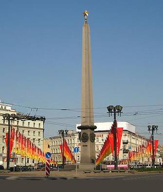 Hero-City Obelisk (Leningrad) — is located in Vosstaniya Square in Saint Petersburg — Leningrad. Installed in May 1985 and the fortieth anniversary of the Victory Day (May 9) in Great Patriotic War. The author of the monument — architect V.S.Lukyanov